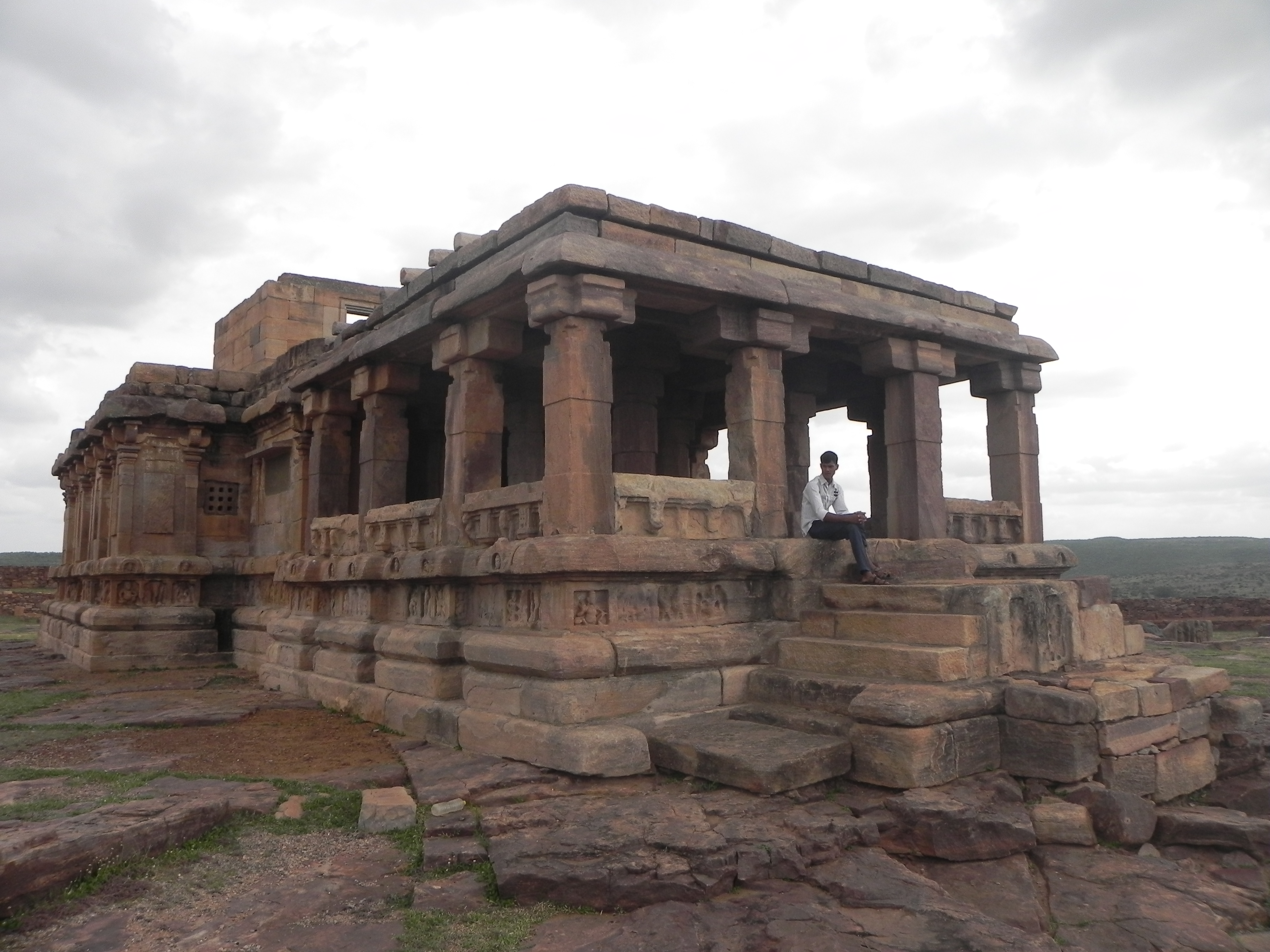 Meguti Jain Temple, Aihole, Karnataka, India